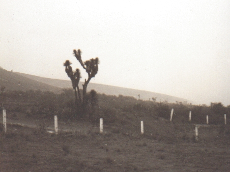 The landscape of the Tehuacán Valley matorral ecoregion. Tehuacán-Cuicatlán Biosphere Reserve, southeastern Puebla and northern Oaxaca states, Central México.